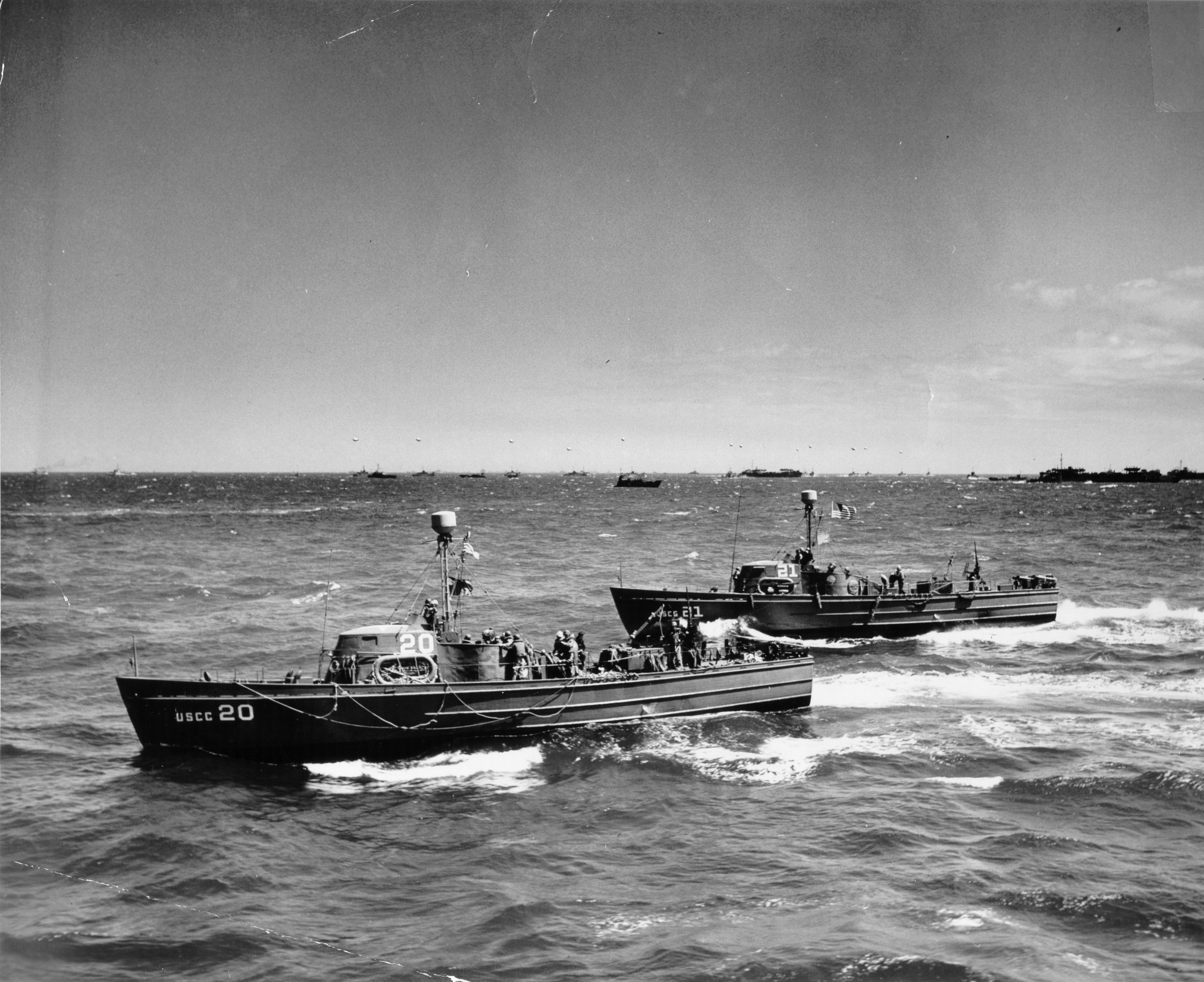 The 83-foot cutters 83401, renamed USCG 20, and the 83402, renamed USCG 21, were two of the sixty Coast Guard cutters sent to England to serve as rescue craft off each of the invasion beaches during the Normandy Invasion.